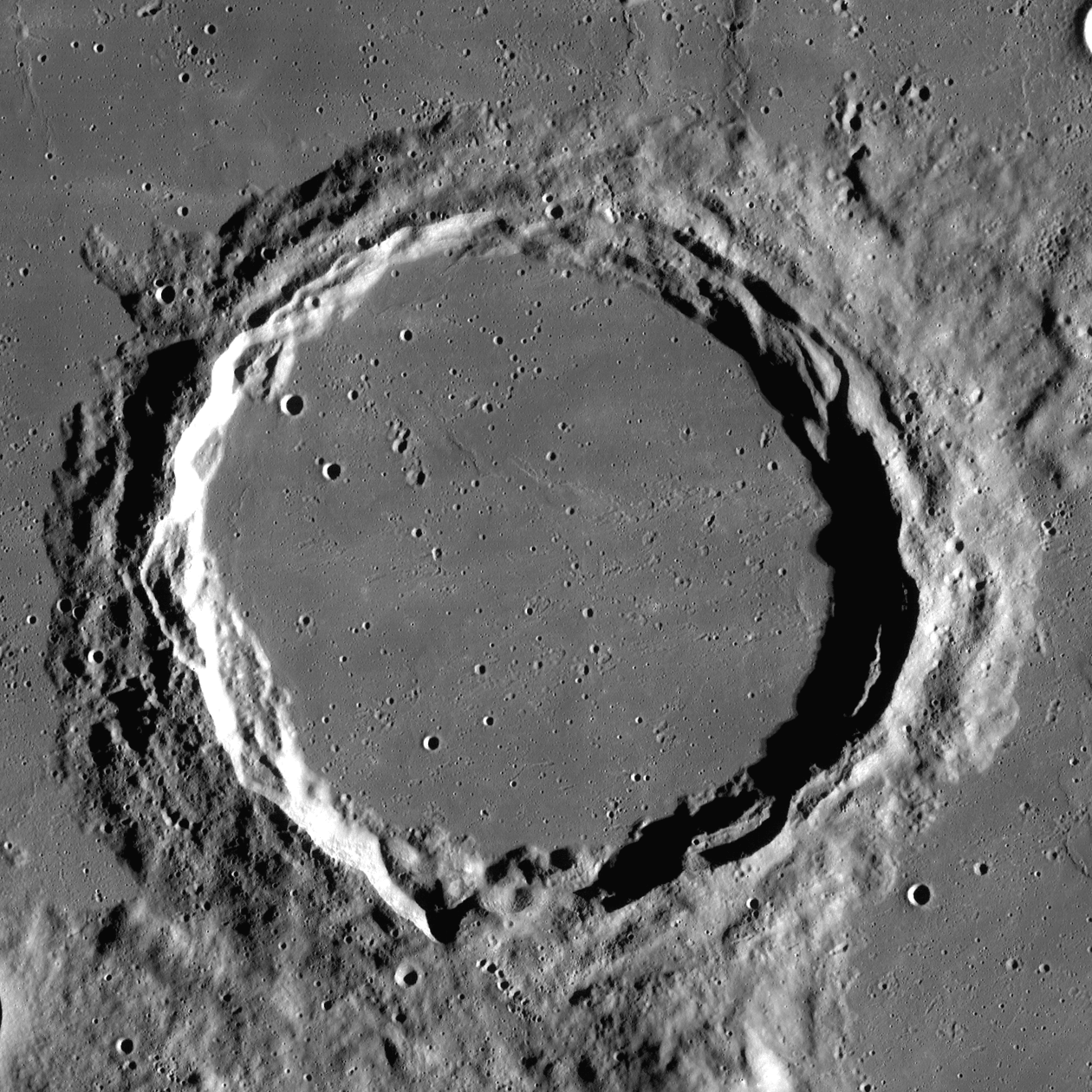 Crater Archimedes on the Moon, in Mare Imbrium. Mosaic of photos by Lunar Reconnaissance Orbiter, made with Wide Angle Camera. Size of the image is 120×120 km, north is up. A map in orthographic projection, centered at center of the crater (29.72°N, 3.99°W).